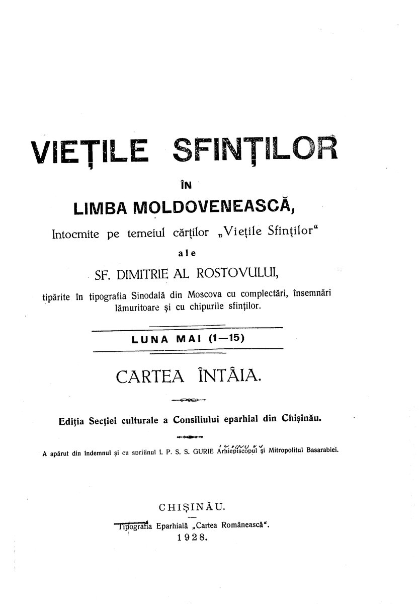 Cover page of Vieţile sfinţilor în limba moldovenească (The Life of Saints in Moldavian Language), published in Chisinau in 1928 (at the time, in Romania).